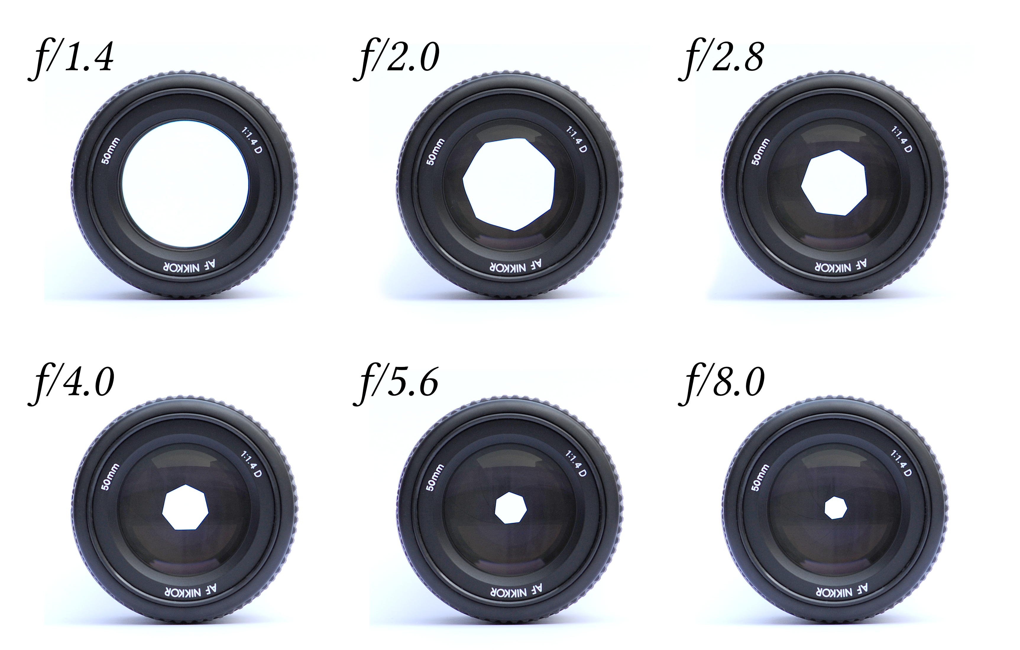 This pictures shows a lens with focal length of 50 mm and different aperture settings. Changing the aperture by one stop changes the aperture area by a factor of 2 (the area at stop f/1.4 is twice as big as the area at stop f/2.0). Each stop is specified by the diameter of the aperture as fraction of the focal length. At stop f/1.4 the aperture has a diameter of 50 mm/1.4 ~ 35.7 mm. The diameter as well as the fraction changes by a factor of square root two from one stop to the next one. The lens is a Nikon AF Nikkor 50mm f/1.4D.